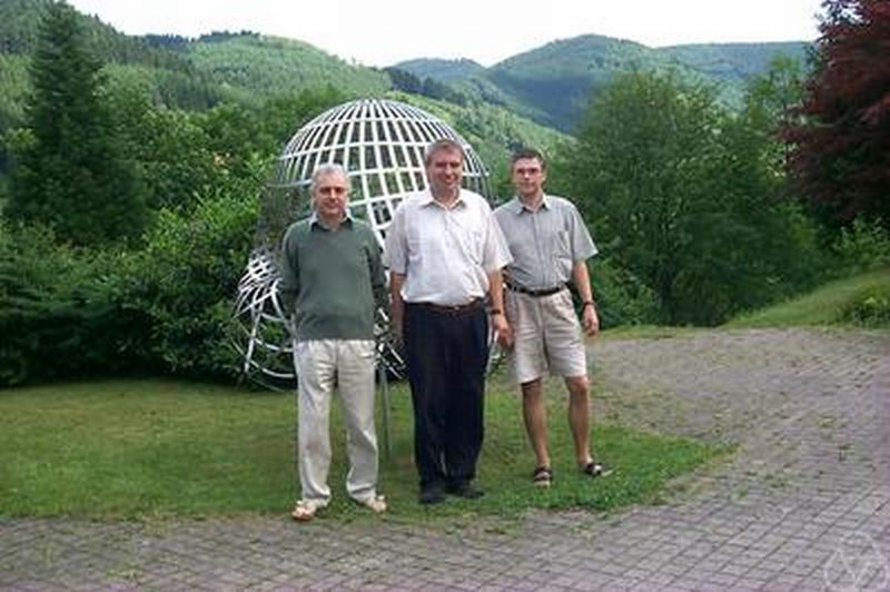 Fromn left:Roberto Longo, Klaus Fredenhagen, Karl-Henning Rehren, Oberwolfach 2002